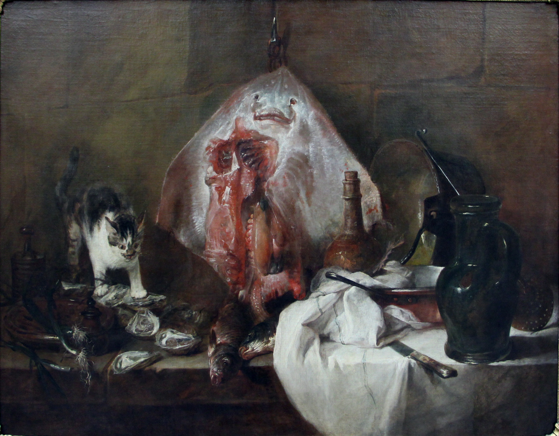 Jean Simeon Chardin, The ray , around 1725-26. Oil on canvas, 114 x 146 cm. Reception piece at the Royal Academy of Painting. Louvre Museum, INV. 3197